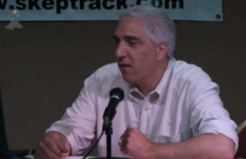 Steven Novella at Kylie Sturguss podcast panel during Skeptrack at Dragon Con.